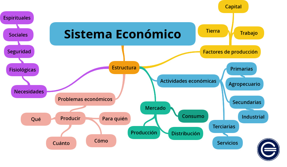 Economipedia - Economic System factors